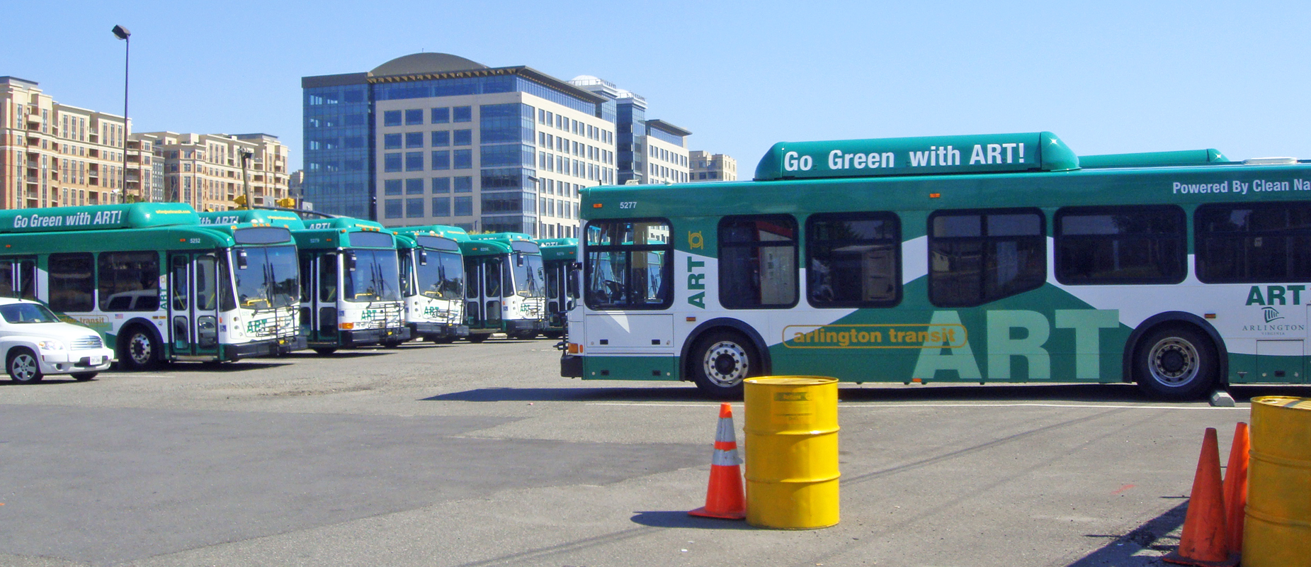 Urban buses powered by compressed natural gas (CNG) from Arlington Transit (ART), Crystal City yard, Virginia, USA